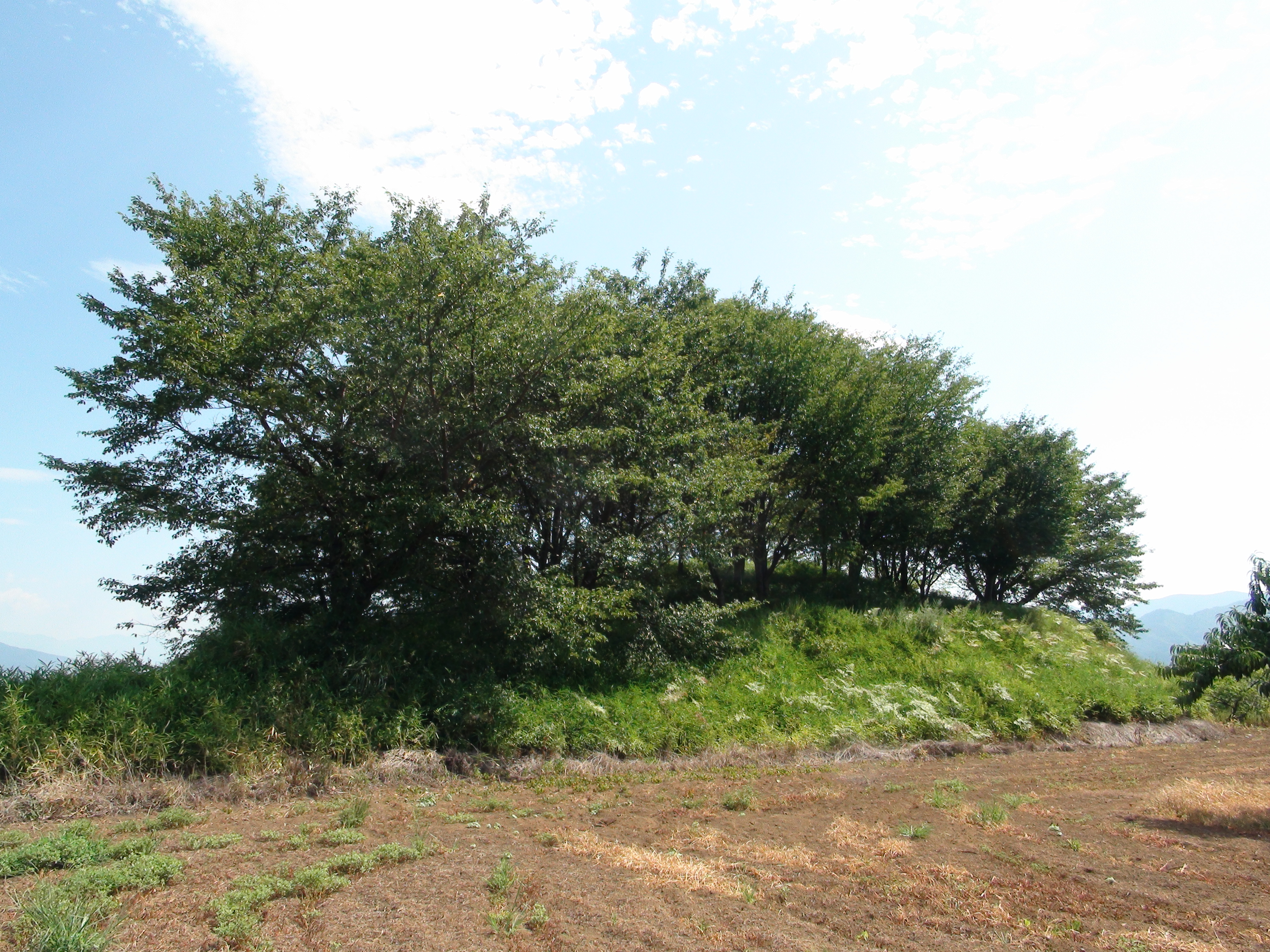 Ouzuka-Kofun Old tomb Chuo-City from west side